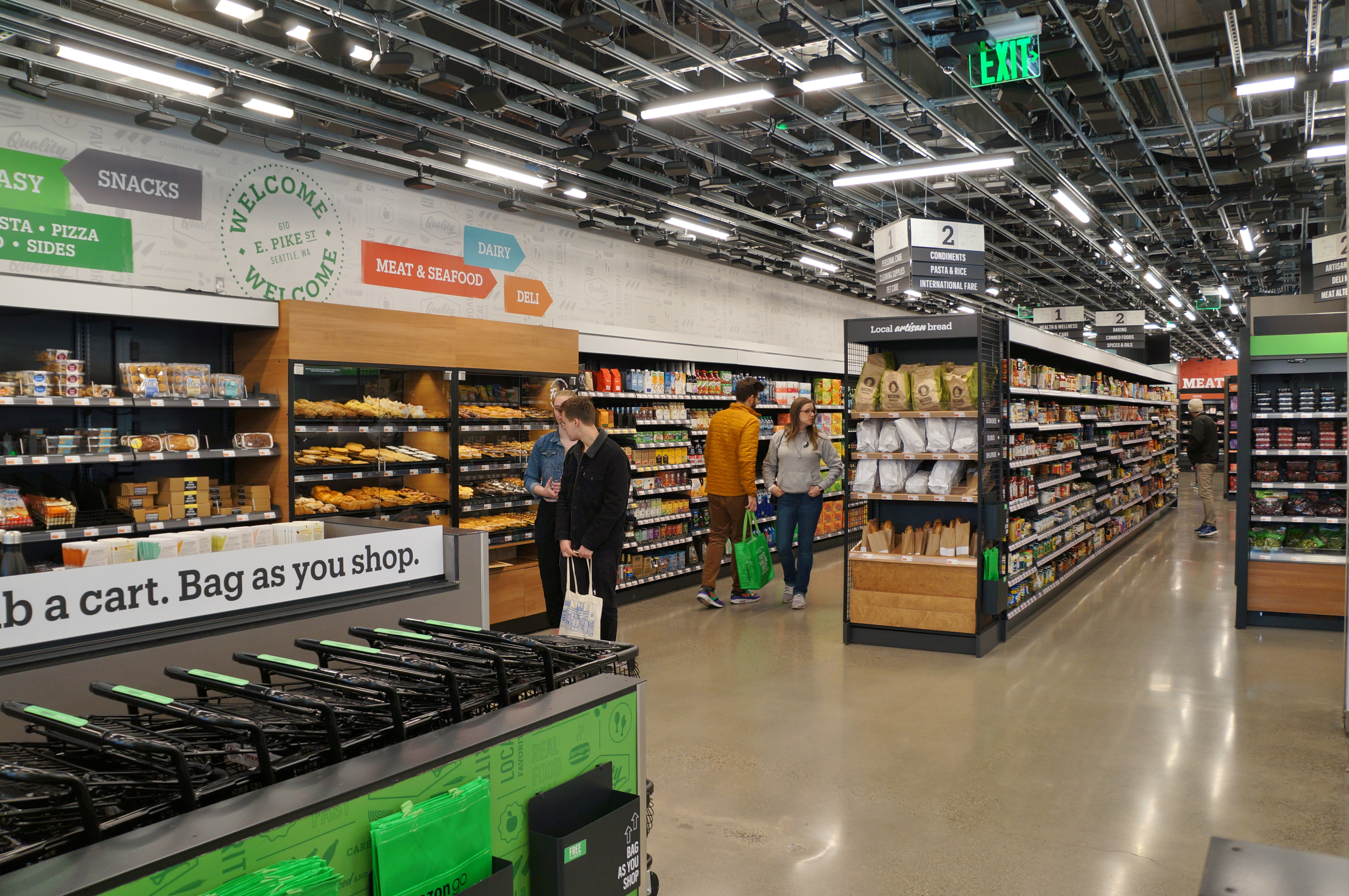 The interior of Amazon Go Grocery, a cashier-less grocery store in Seattle, Washington. The ceiling is covered in cameras and sensors to detect customers and their interactions with products.